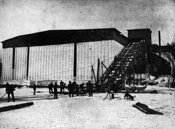 Ice Warehouse, 1913